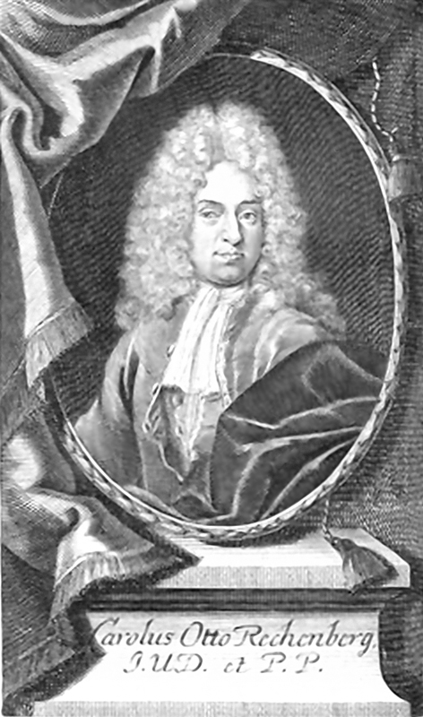 Karl Otto Rechenberg (1689-1751) Jurist, Poet and Historian from Germany